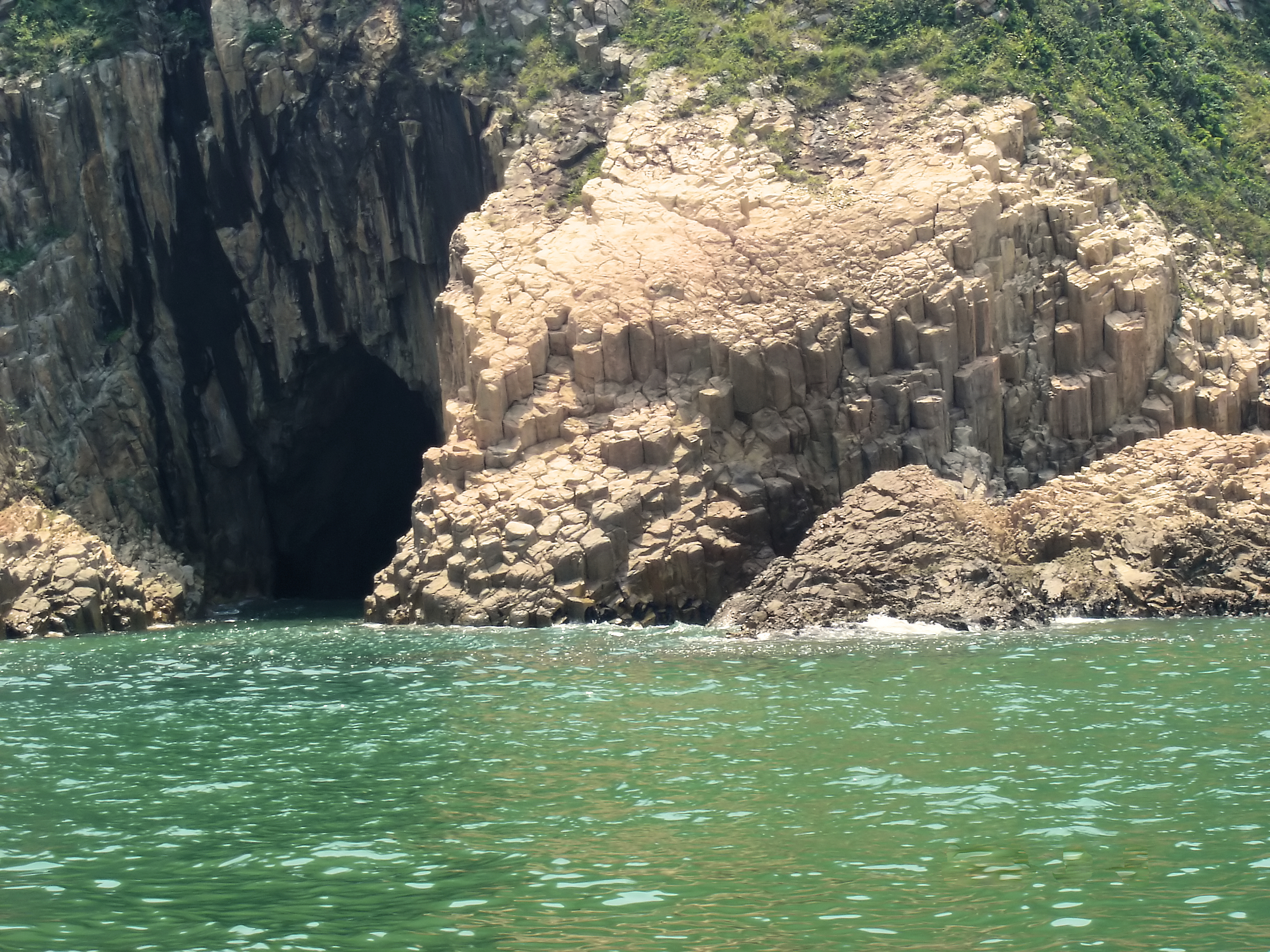 columnar jointed basalt in Hong Kong - near Basalt Island and High Island Reservoir areas